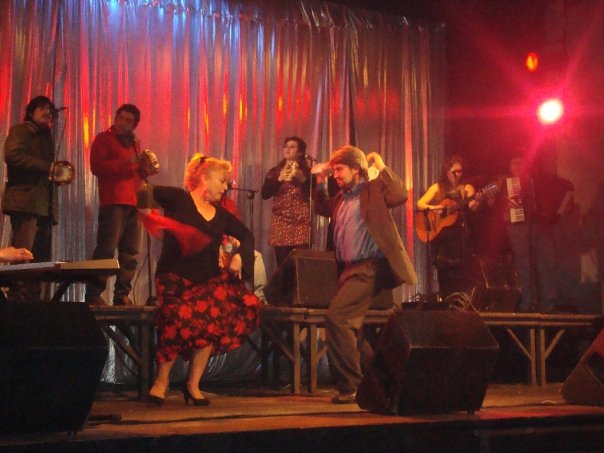 Rita Nuñez Medina en un encuentro de cuecas.